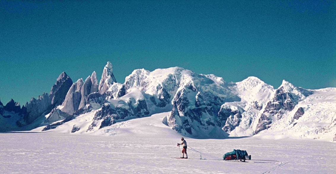 Photo Skvarca